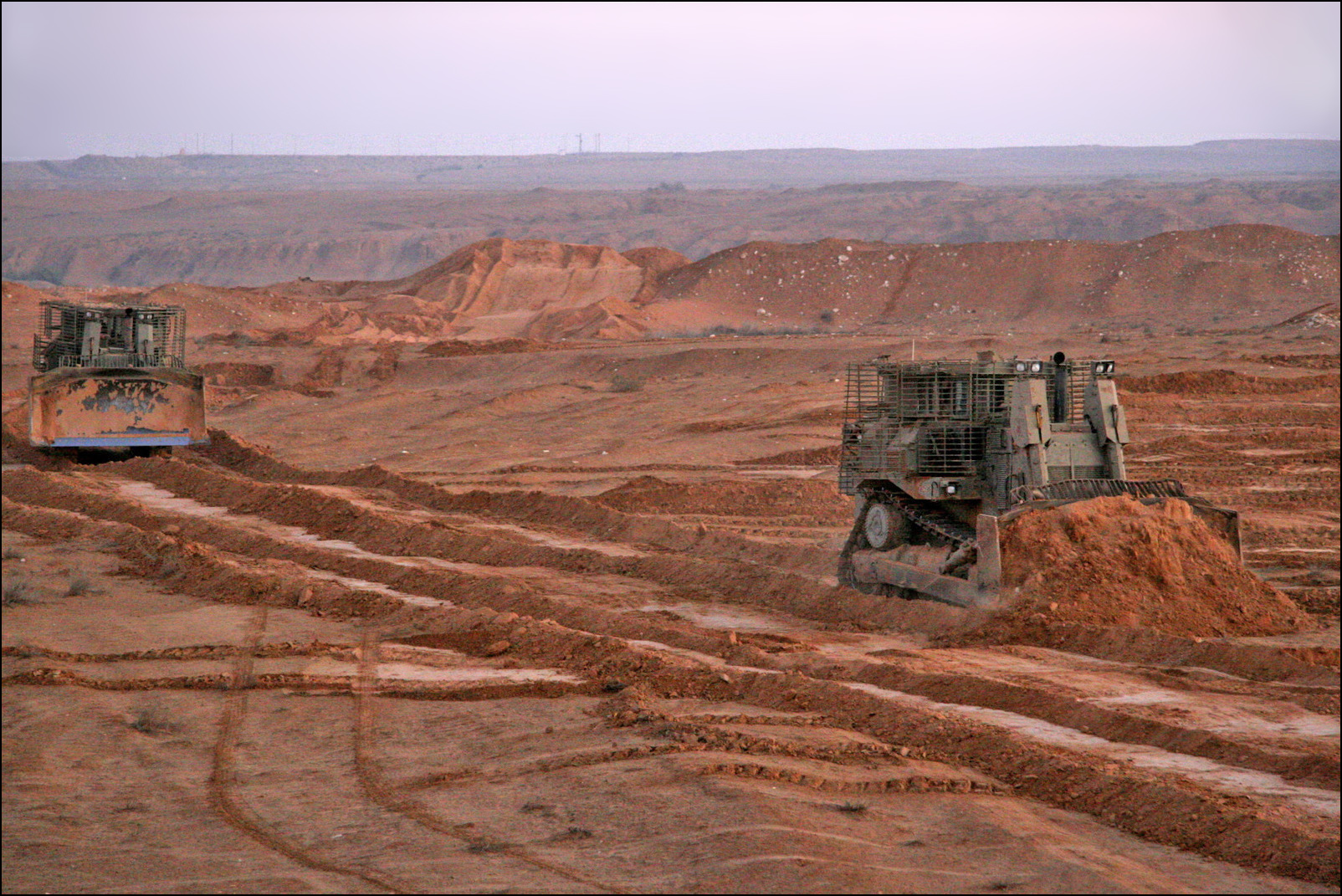 IDF Caterpillar D9 armored bulldozers of the "Steel Cats" unit training in opening a safe route